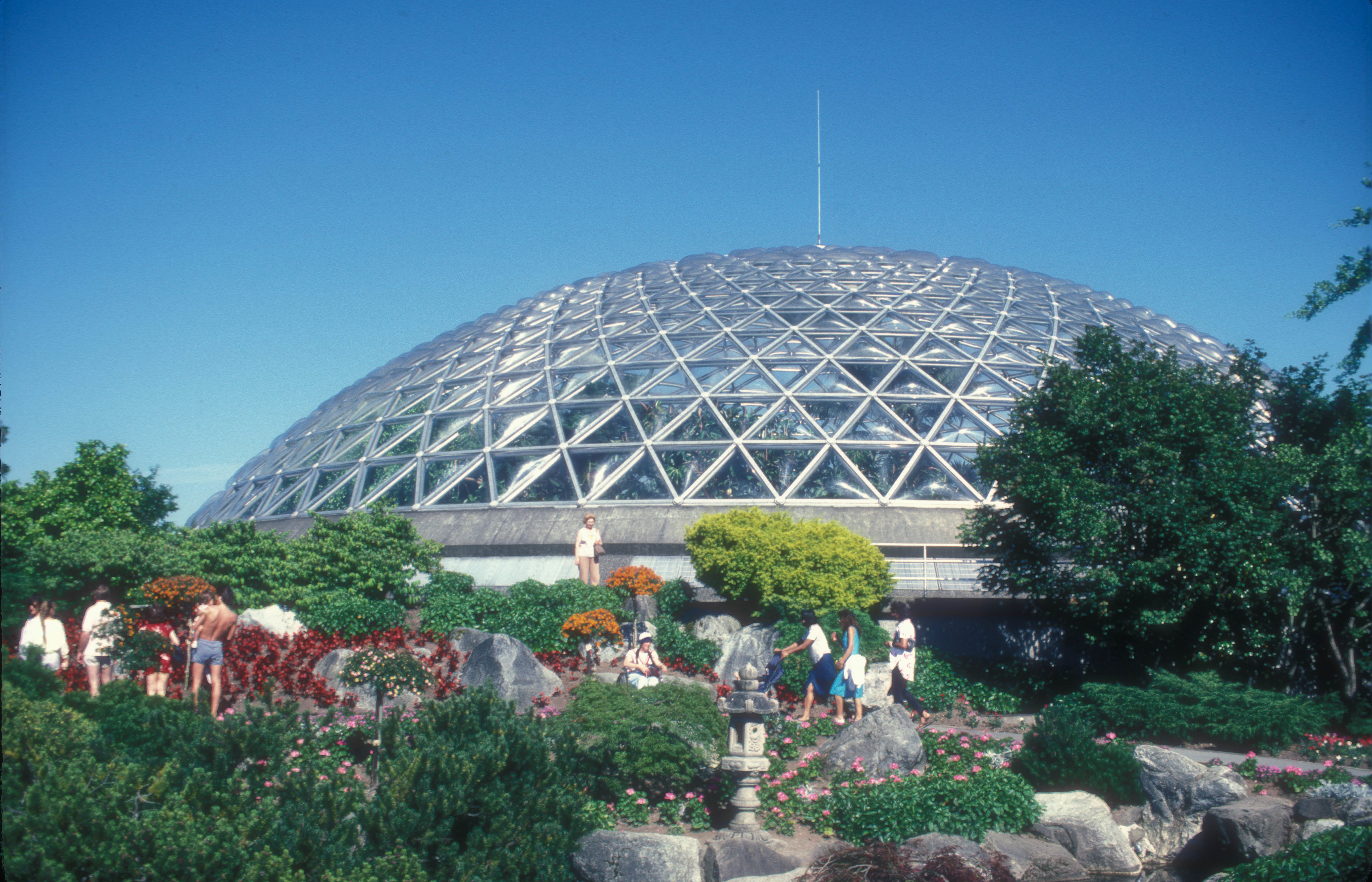 QUEEN ELIZABETH PARK ON THE HIGHEST HILL IN VANCOUVER;; BLOEDEL FLORAL CONSERVATORY OPENED IN 1965